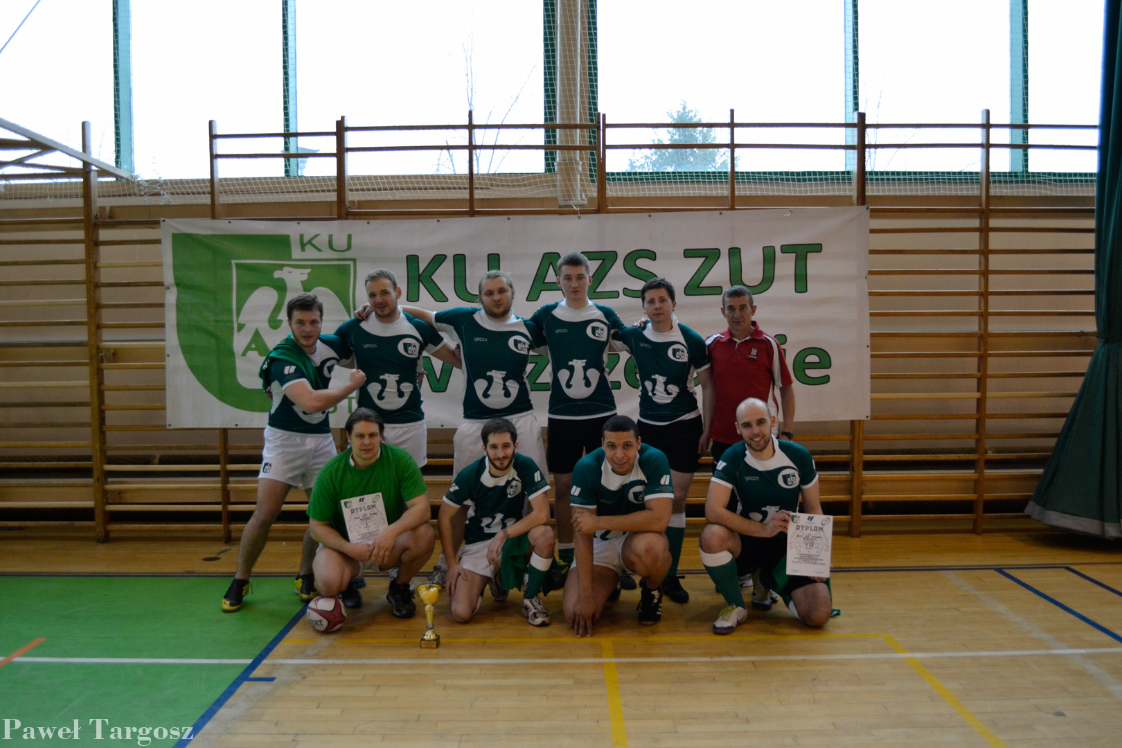 II Mistrzostwa Województwa Zachodniopomorskiego w Touch Rugby 2014